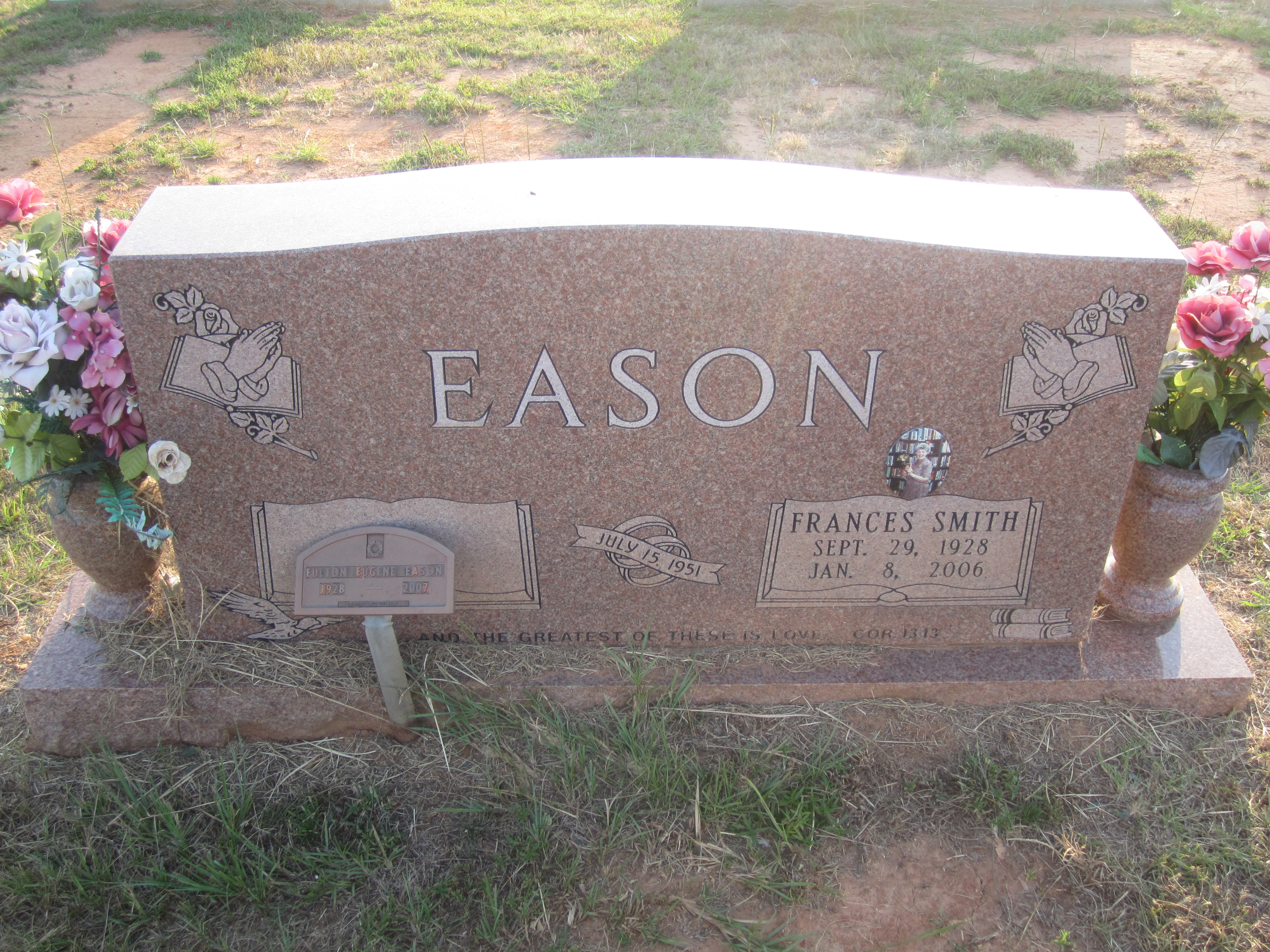 I took photo with Canon camera on June 9, 2012, in Springhill, LA, of grave of former State Rep. Eugene Eason. Billy Hathorn (talk) 18:42, 28 June 2012 (UTC)